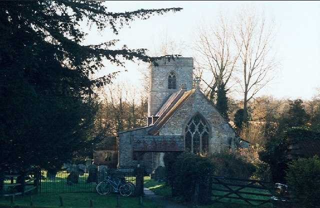 Church of England parish church of the Holy Trinity, West Hendred, Oxfordshire (formerly Berkshire)